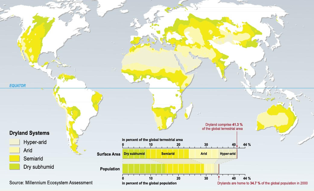 map of dry lands geomorphology